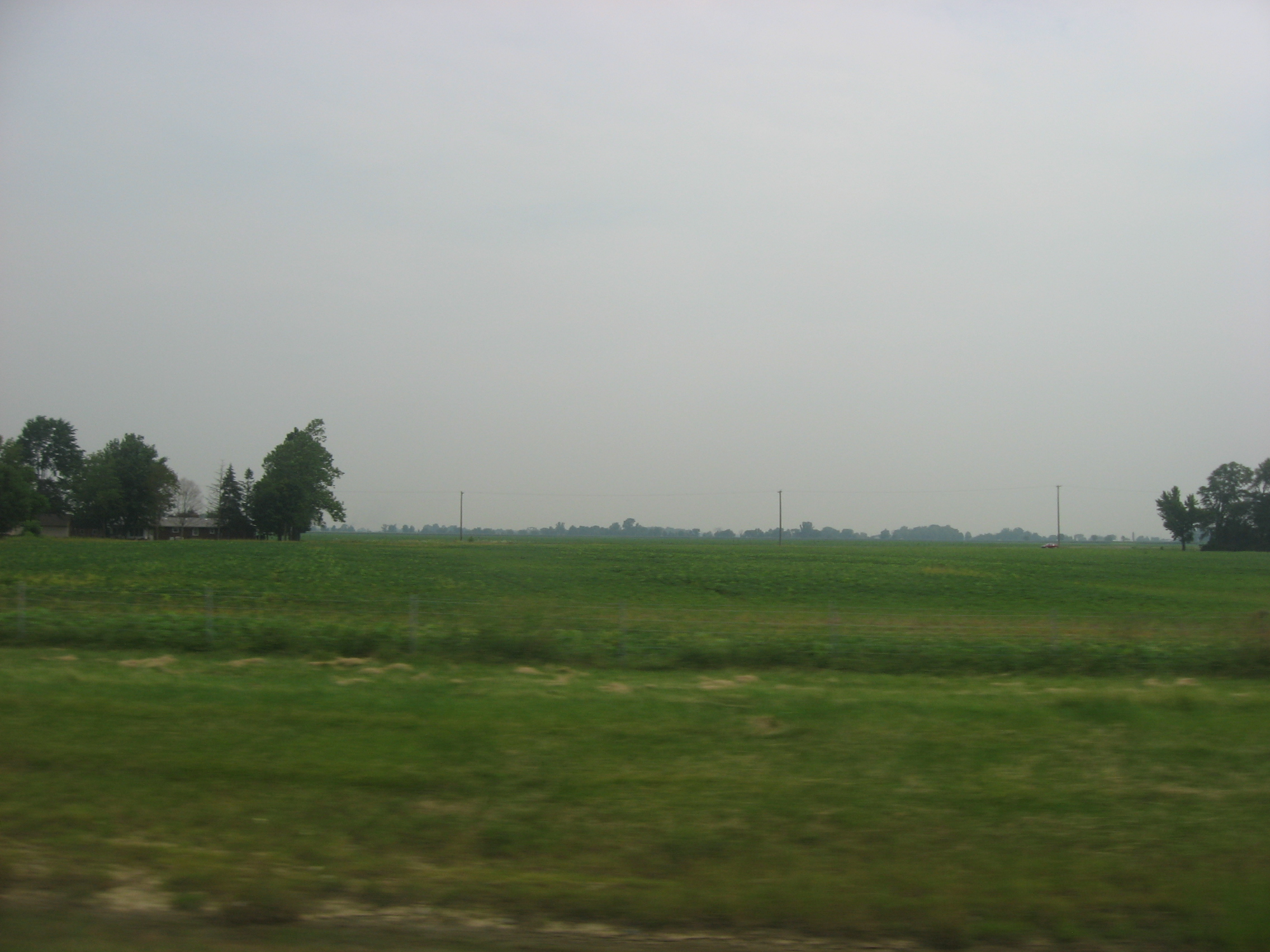 Countryside in southwestern Harris Township, Ottawa County, Ohio, United States. Picture taken looking northward from the concurrent Interstates 80/90 (the Ohio Turnpike).